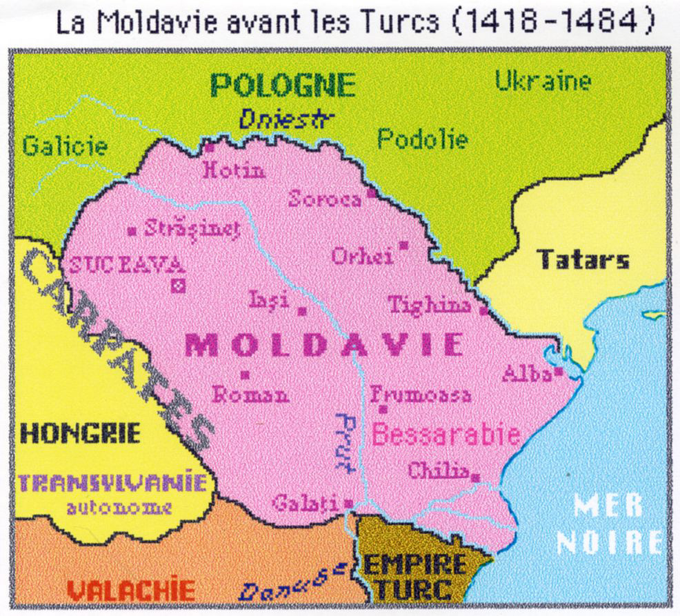 Map of Moldova/Moldavia 1418-1484